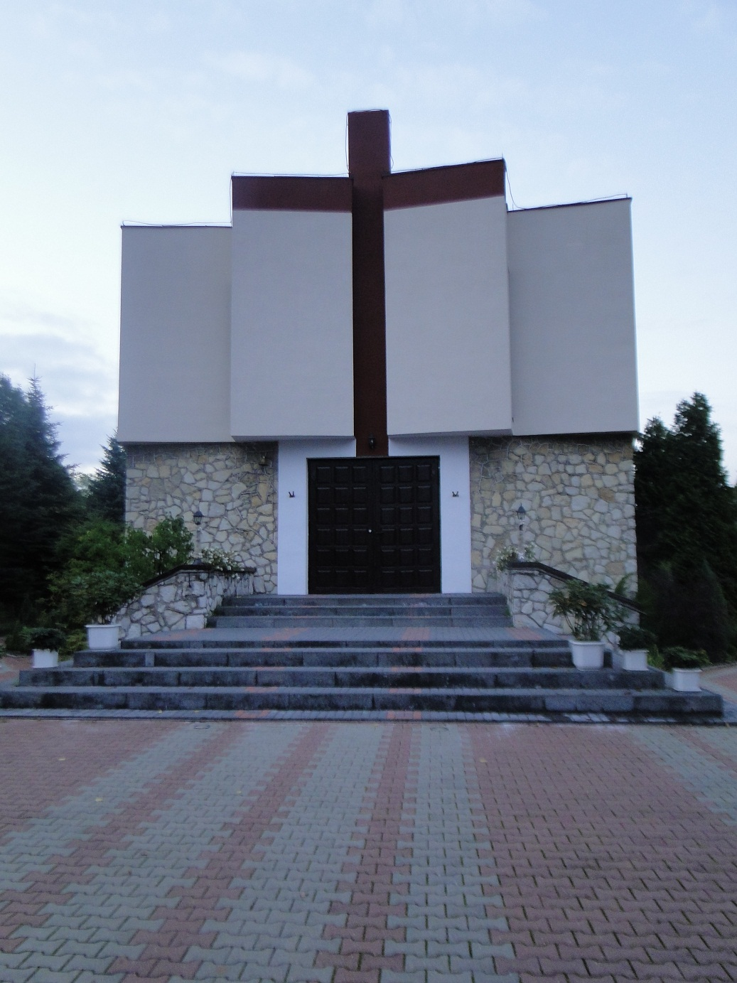 Polish Catholic Church in Bukowno